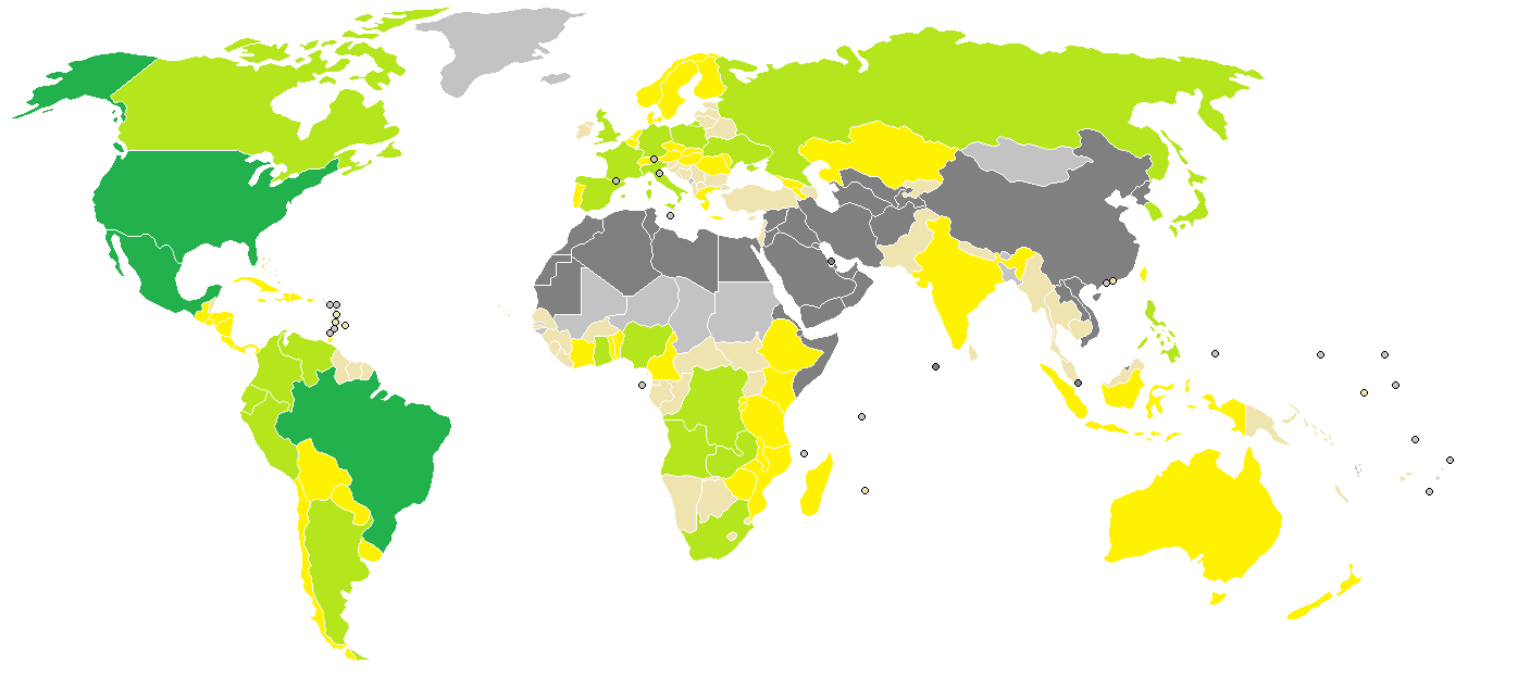 The number of Jehovah's Witnesses in the world. – unknown – less than 1000 – 1000–9999 – 10,000–99,999 – 100,000–499,999 – more than 500 000